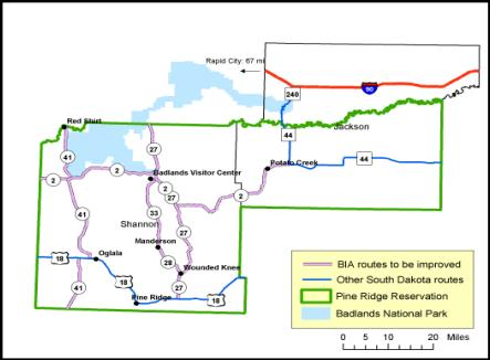 Map of the Oglala Lakota Pine Ridge Reservation Road System — in South Dakota.